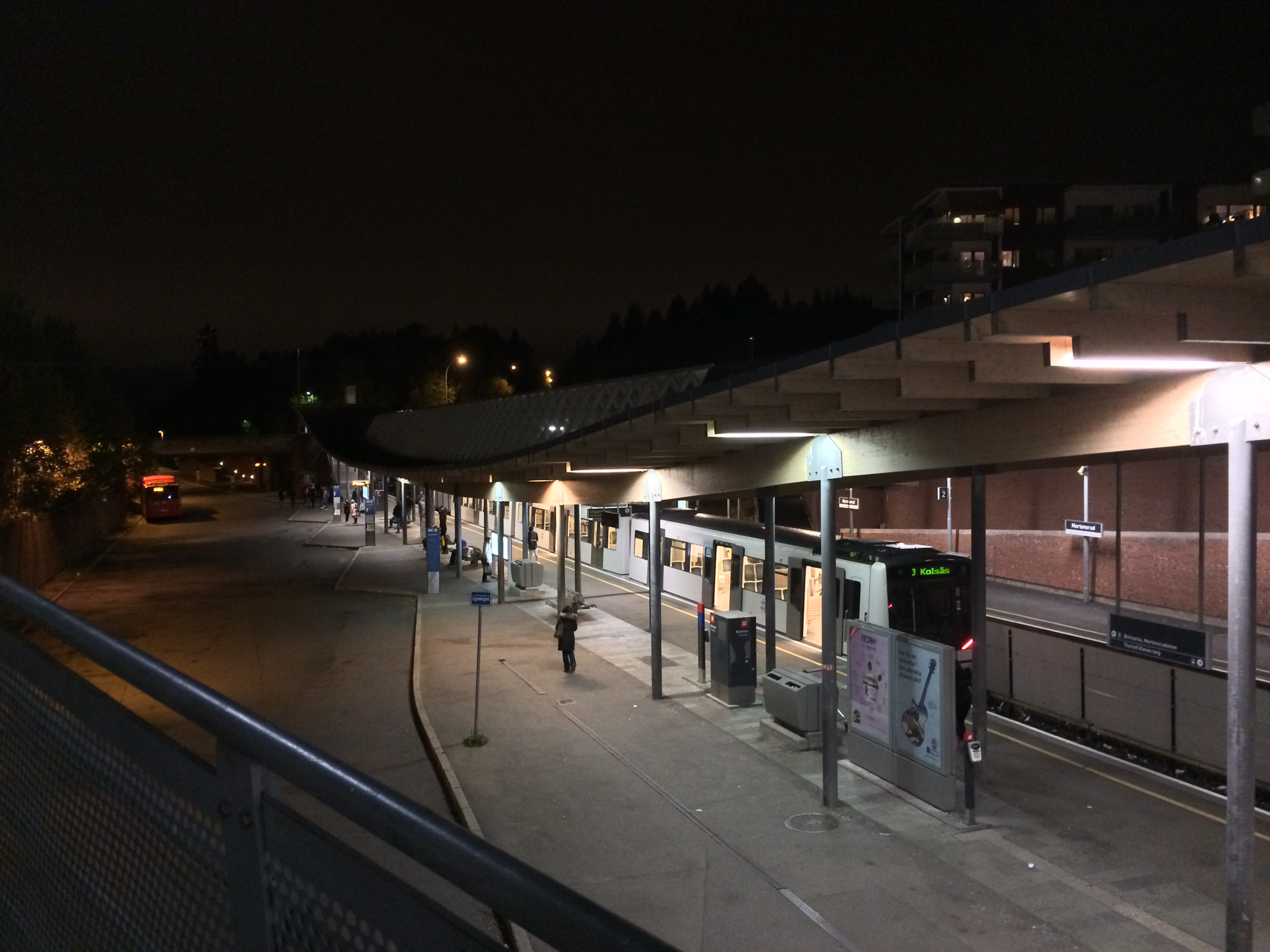 Mortensrud Station with bus terminal next to it